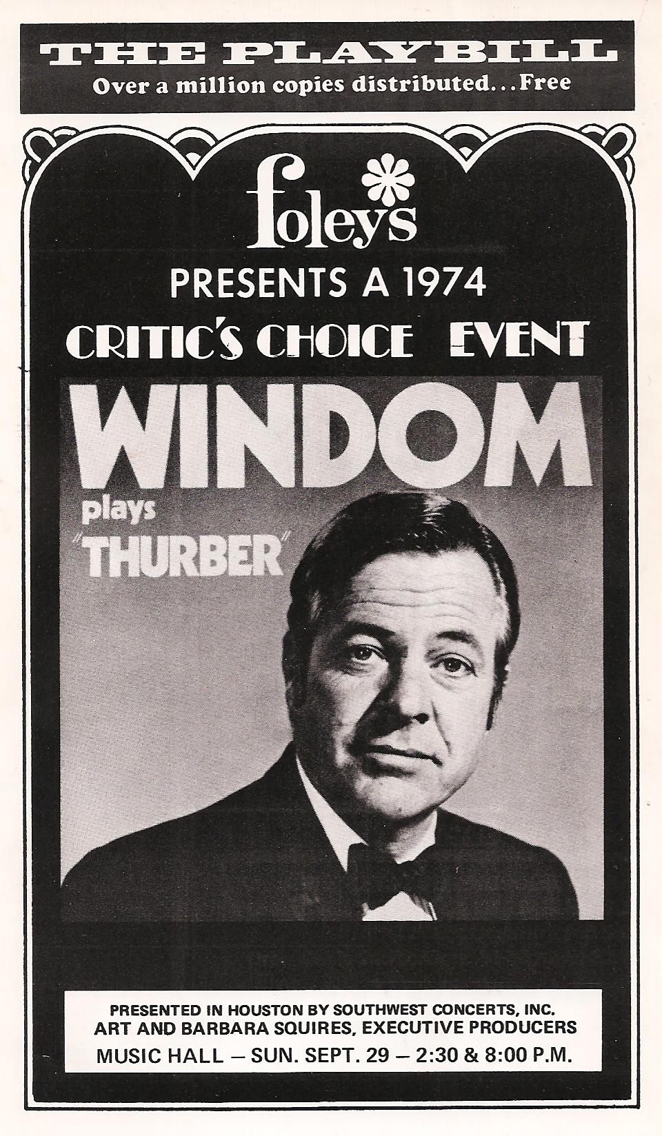 playbill